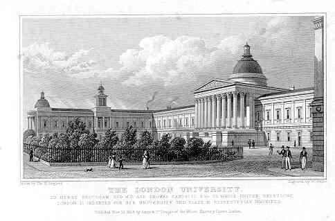 "The London University" as drawn by Thomas Hosmer Shepherd and published in 1827/28. This building is now part of University College, London, which today is just one of the many constituent colleges and institutes of the University of London. University College was founded in 1826.